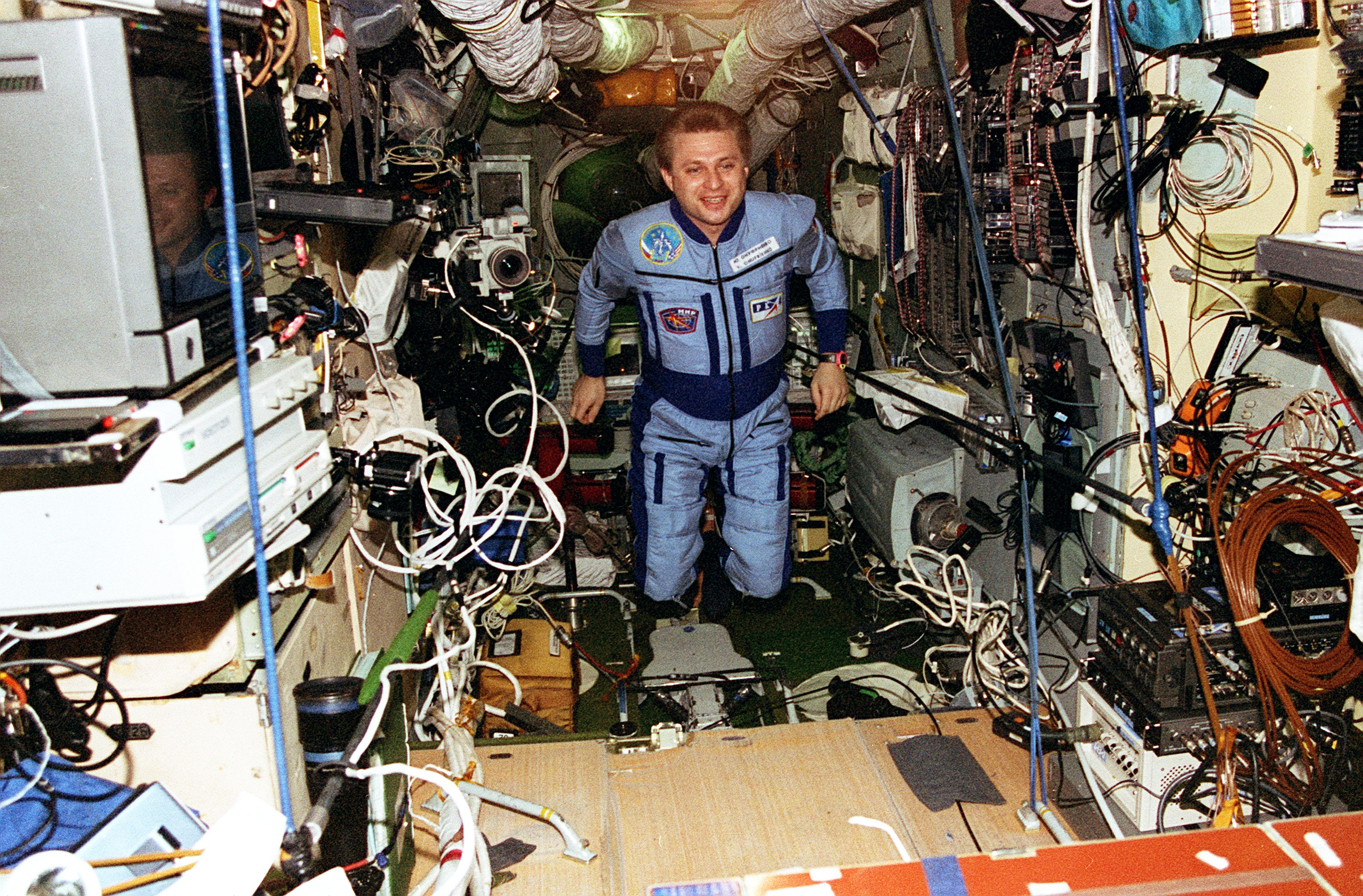 STS076-344-034 (22-31 March 1996) --- Cosmonaut Yury I. Onufrienko, commander for the Mir-21 mission, floats through the Base Block Module on Russia's Mir Space Station. The photograph was taken with a 35mm camera by one of the STS-76 Space Shuttle Atlantis crew members, aboard Mir for a brief visit following the delivery of astronaut Shannon W. Lucid, cosmonaut guest researcher, during the third docking mission.